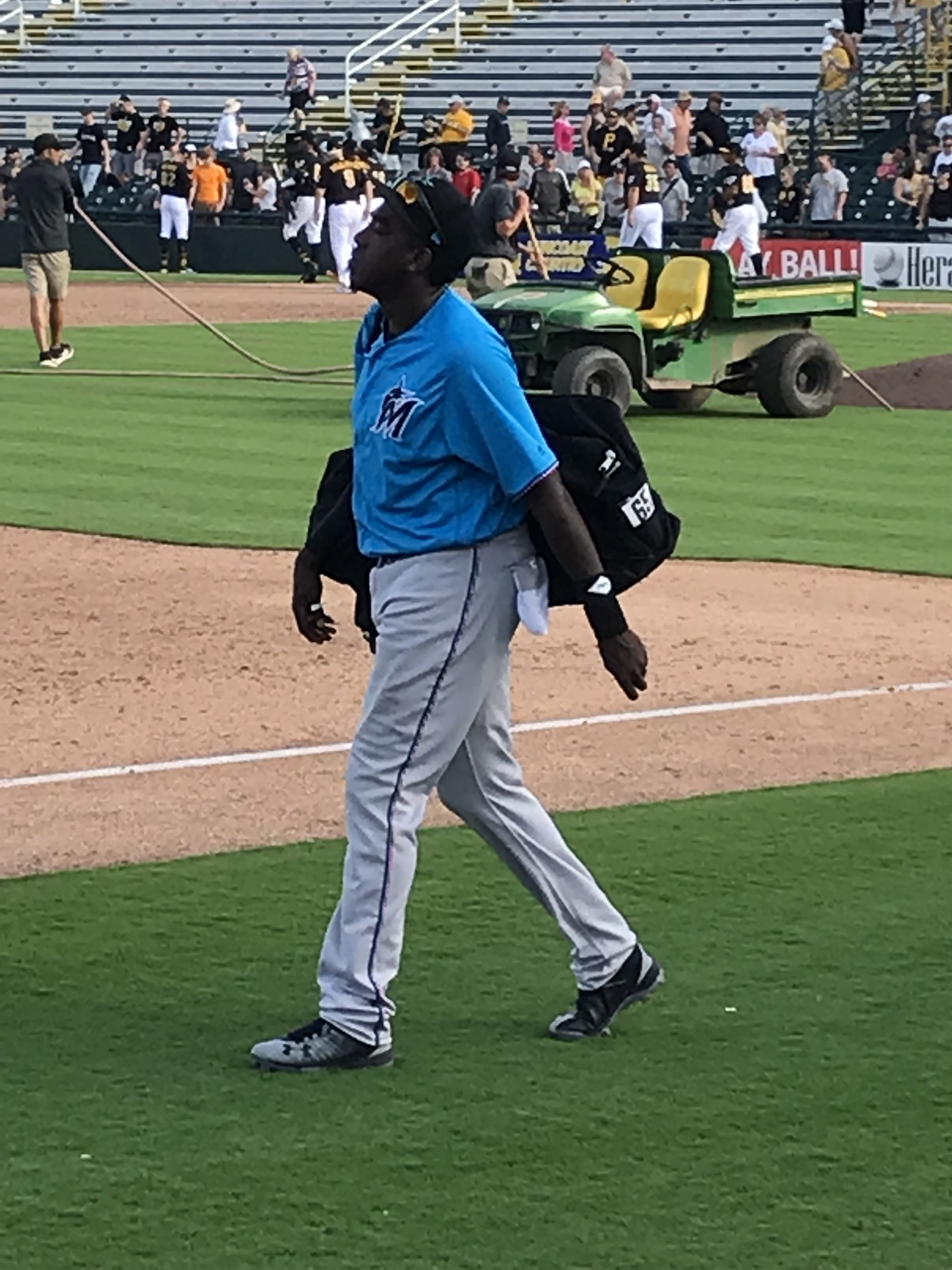 Gabby Guerrero 2/24/2019